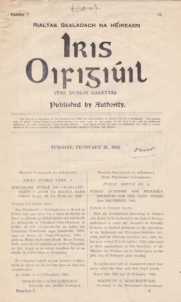 Front cover of the first edition of Iris Oifigiuil February 1922